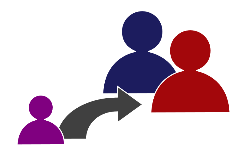 Pictograph/icon for child adoption.